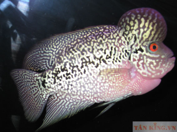 Tanking